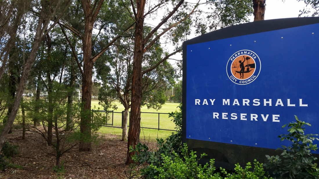 Signage at Ray Marshall Reserve in South Granville, NSW, Australia